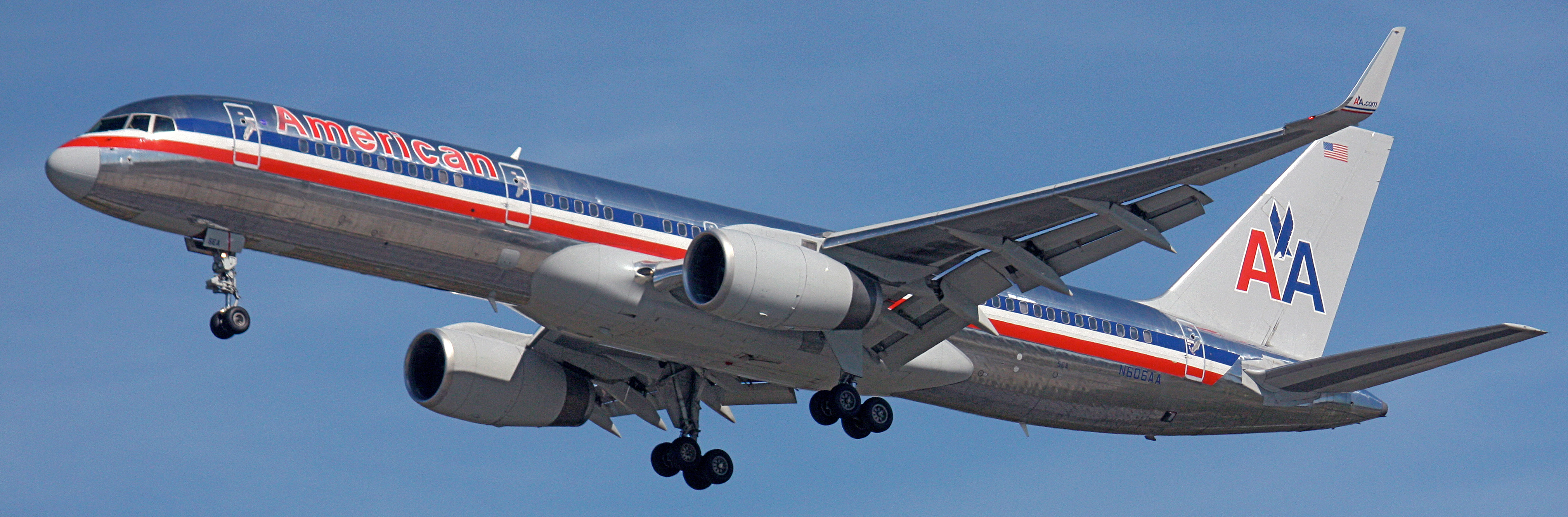 An American Airlines Boeing 757-223 landing at Vancouver International Airport